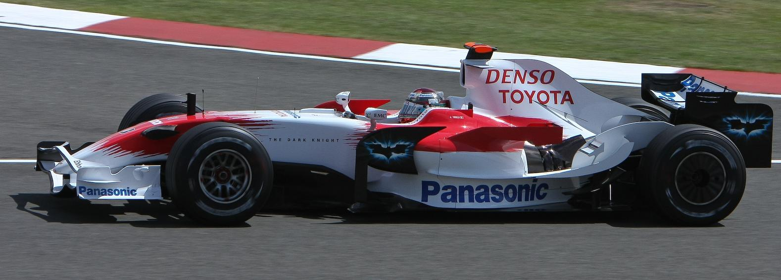 Jarno Trulli driving for Toyota F1 at the 2008 British Grand Prix.